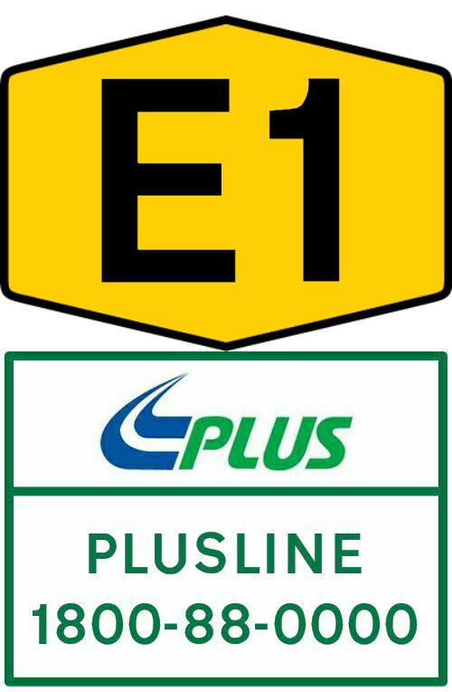 Expressway route number shield with expressway hotline numberBahasa Melayu: Papan tanda jata lebuhraya bersama-sama dengan nombor telefon bantuan lebuhraya